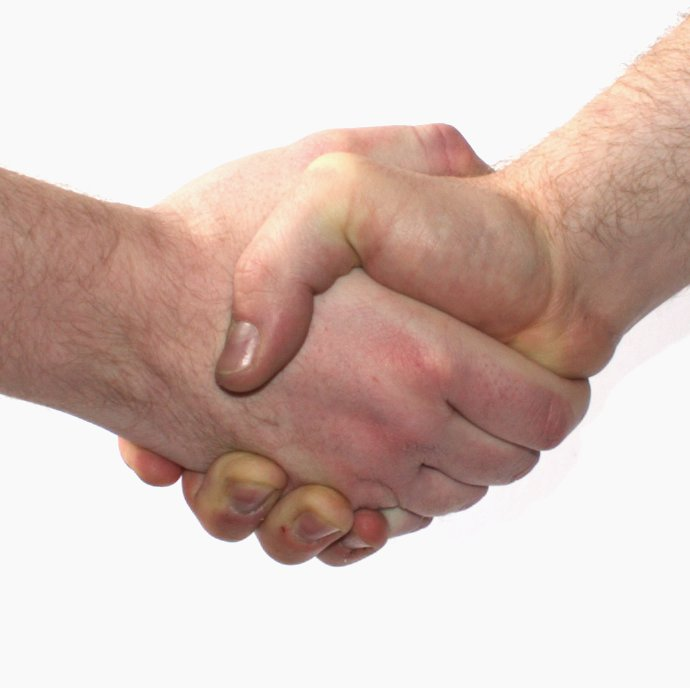 User:dapete and User:Ezrimerchant shaking hands on the (German) Wikipedia Workshop in Cologne, 2006—posing for Händeschütteln.